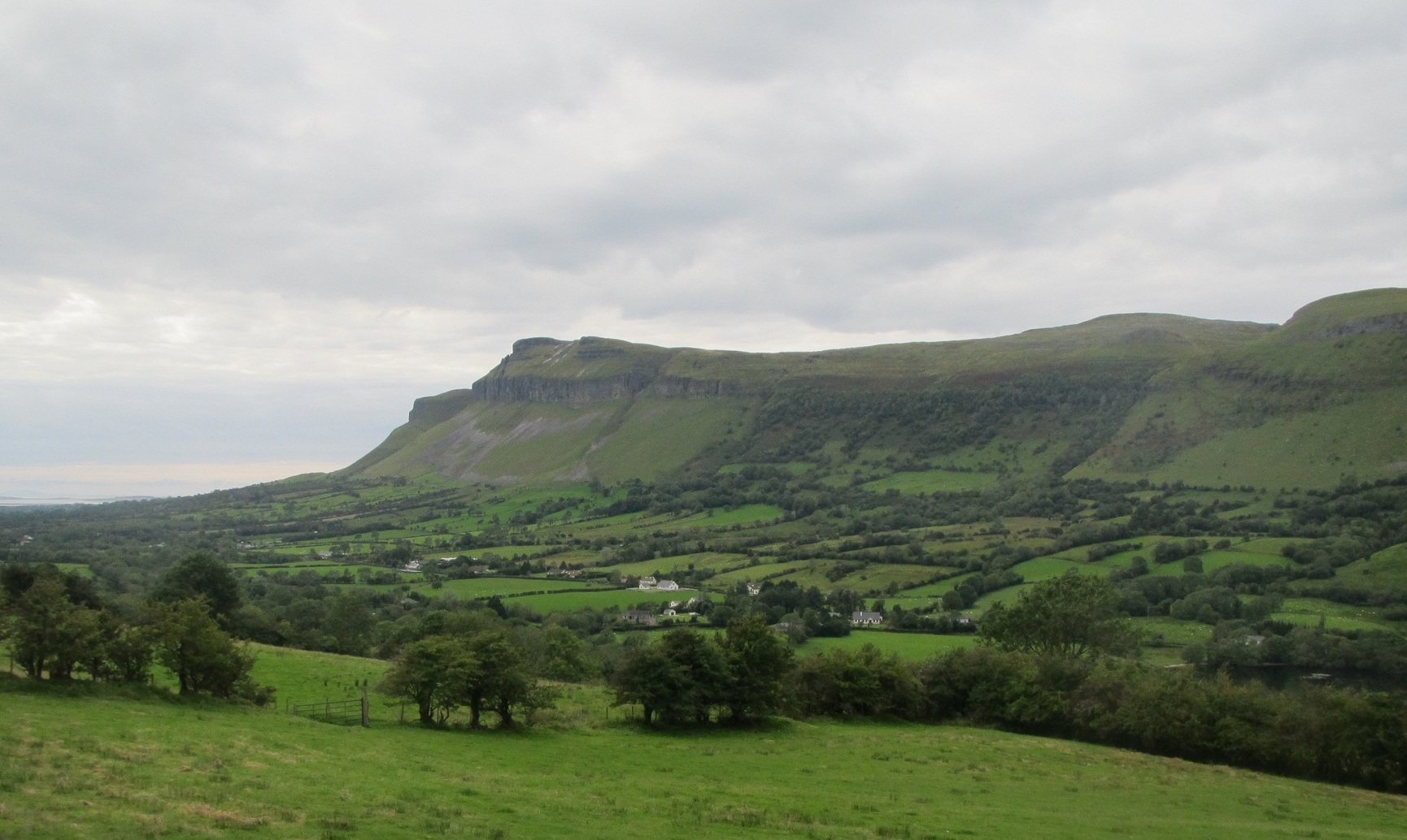 Ben Bulben by Bloom